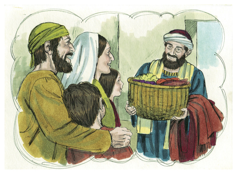 Biblical illustration of First Epistle of John Chapter 3